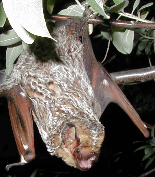 A hoary bat (Lasiurus cinereus) roosting on the branch of a tree.